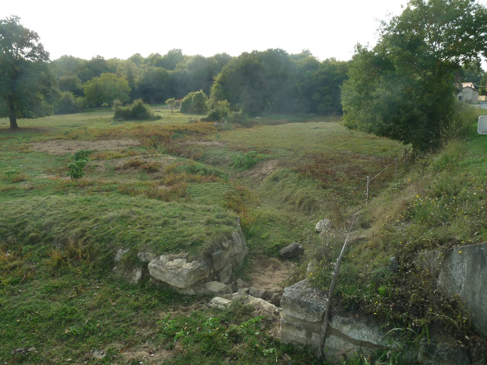 Karstic loss of Bandiat river near Rivières, Charente, SW France